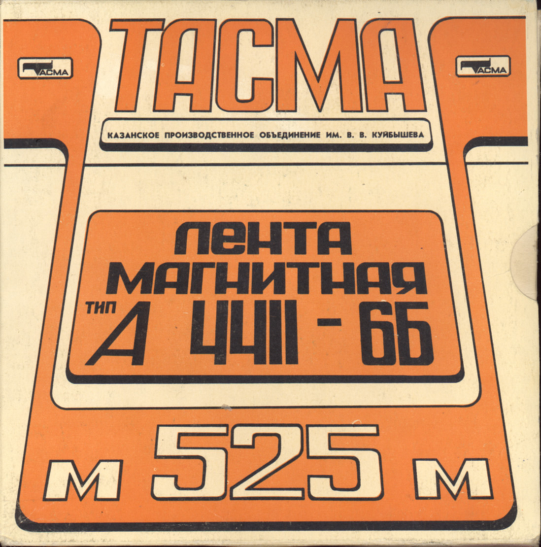 Tasma Bobina